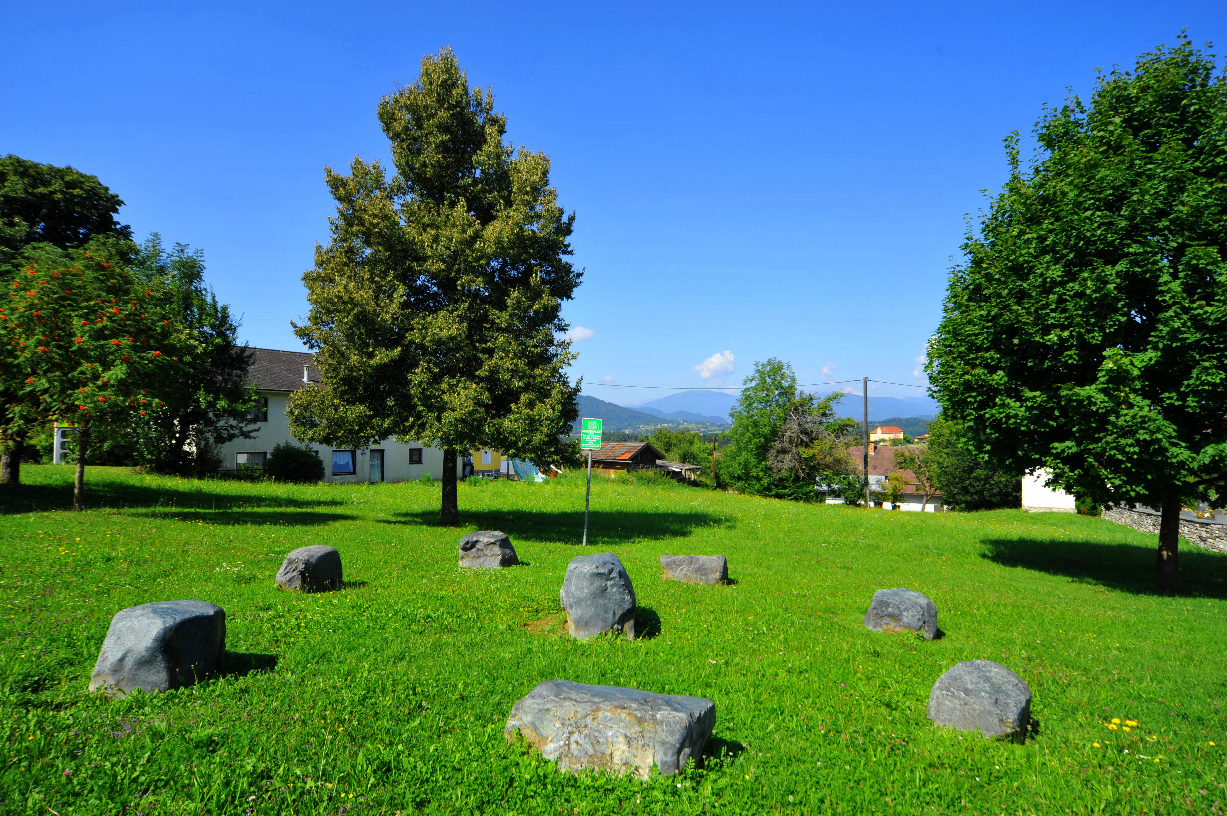 Celtic court-place at Tigring in the community Moosburg, district Klagenfurt-Land, Carinthia, Austria